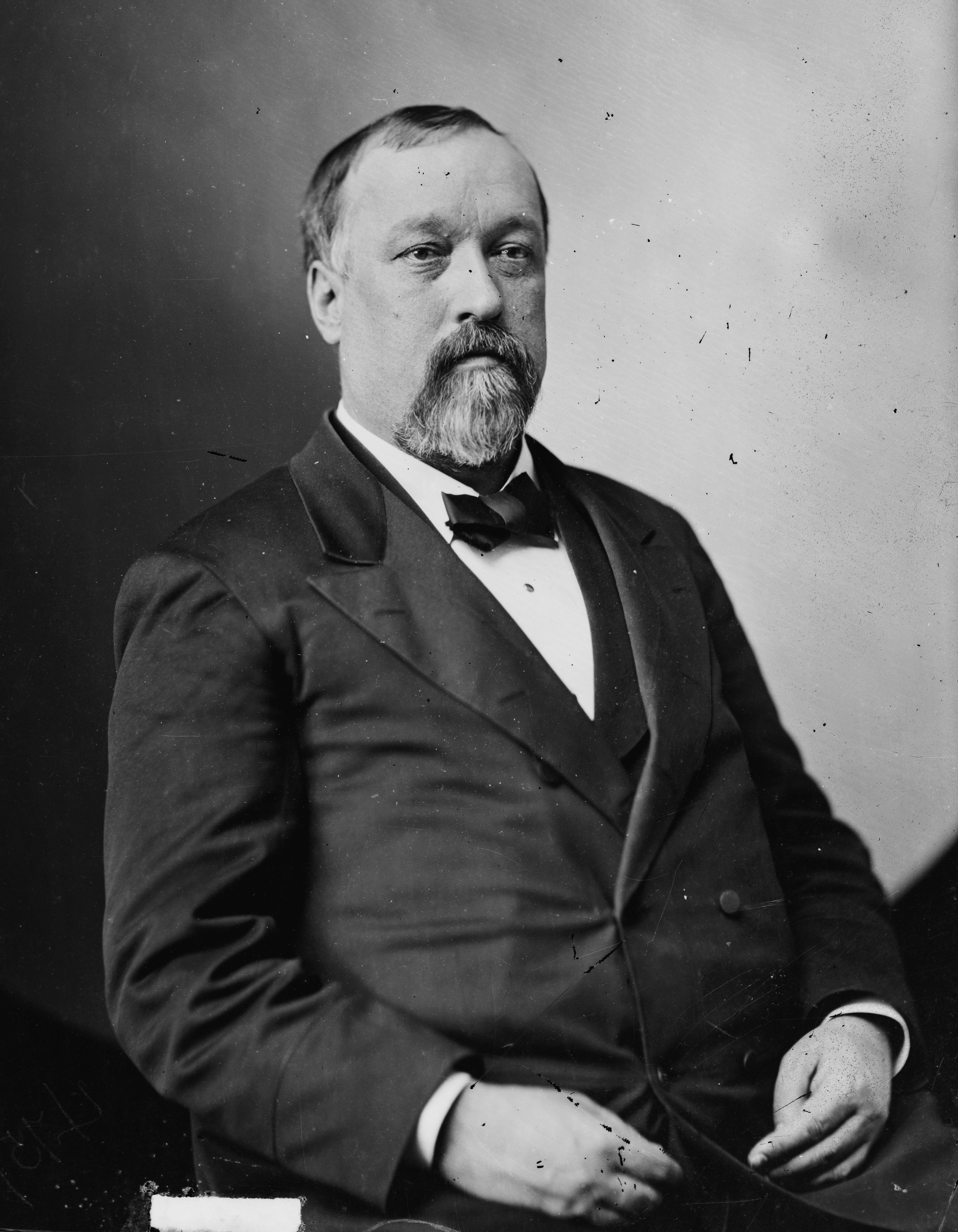 Benjmain Bristow, former Secretary of the Treasury of the United States.